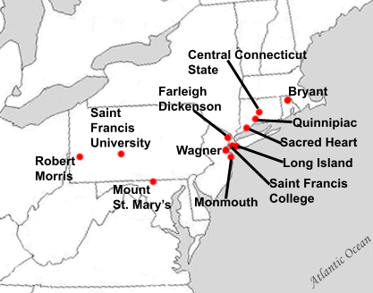 Locations of Northeast Conference full member institutions. Personal creation in Photoshop; All rights released to the public to do whatever they want with it.